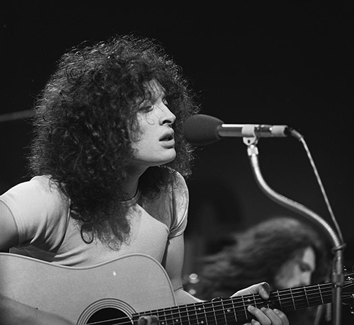 Barry Hay (Golden Earring) performing in TopPop Special (Dutch TV). Recorded 16 April 1971. Broadcast 21 May & 8 June 1971.